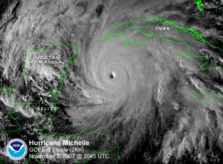 Hurricane Michelle on November 3.